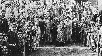 Bukharan Jews